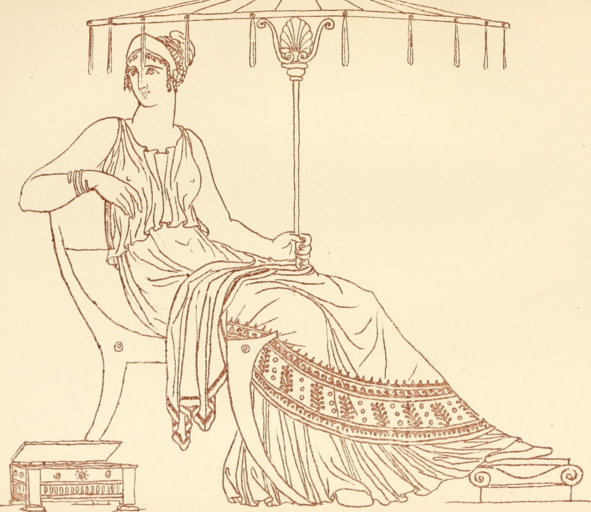 Title: Ancient Greek female costume : illustrated by one hundred and twelve plates and numerous smaller illustrations ; with descriptive letterpress and descriptive passages from the works of Homer, Hesiod, Herodotus, Aeschylus, Euripides, Aristophanes, Theocritus, Xenophon, Lucian, and other Greek authors Year: 1882 (1880s) Authors: Smith, J. Moyr, 1839-1912 Subjects: Costume -- Greece Women -- Greece Publisher: London : Sampson Low, Marston, Searle, & Rivington Text Appearing Before Image: 55 Text Appearing After Image: IQO